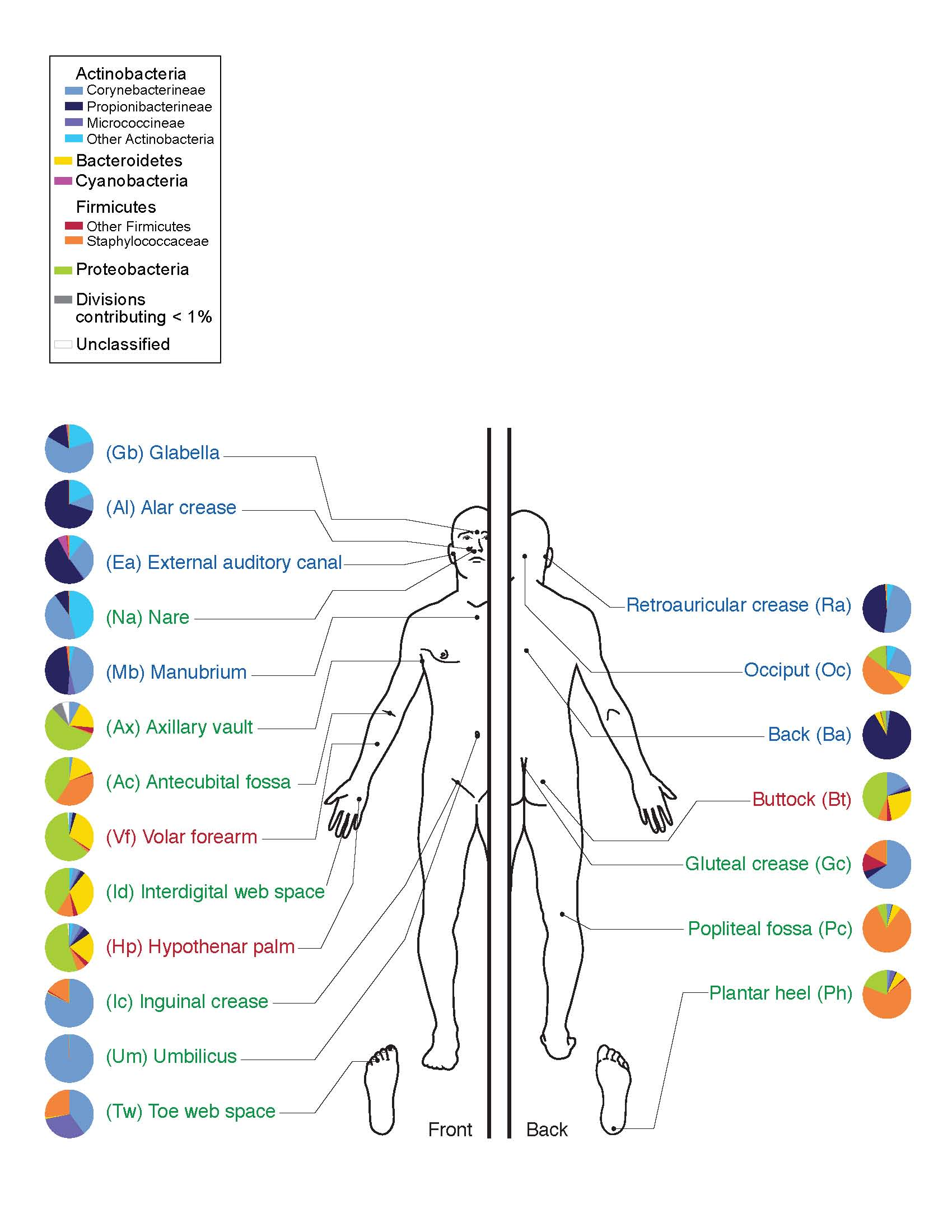 Skin-Microbiome-Human